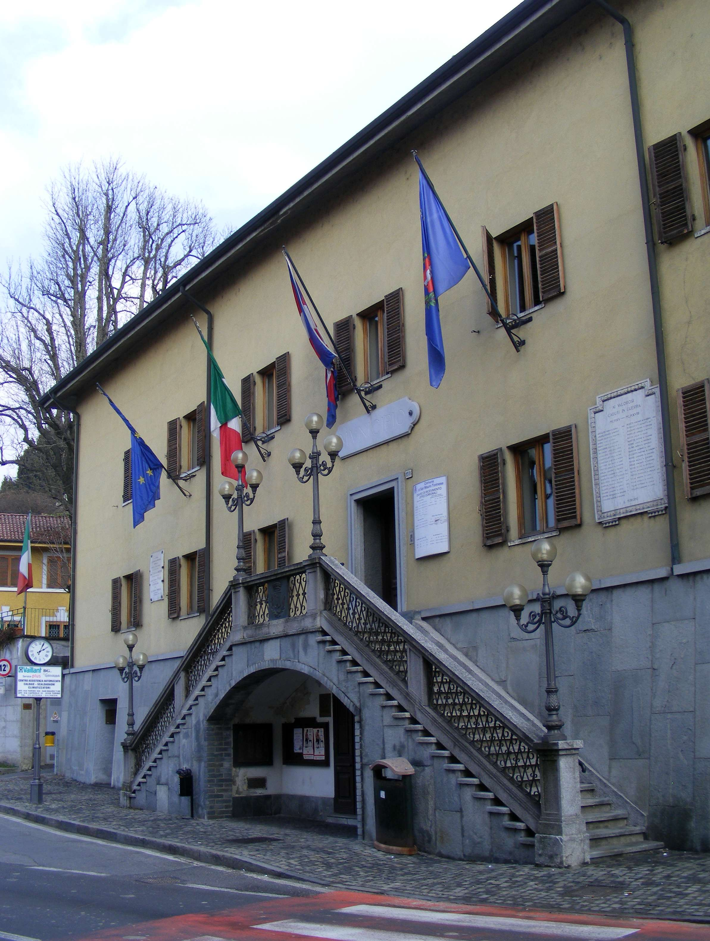 San Mauro Torinese (TO, Italy): town hall